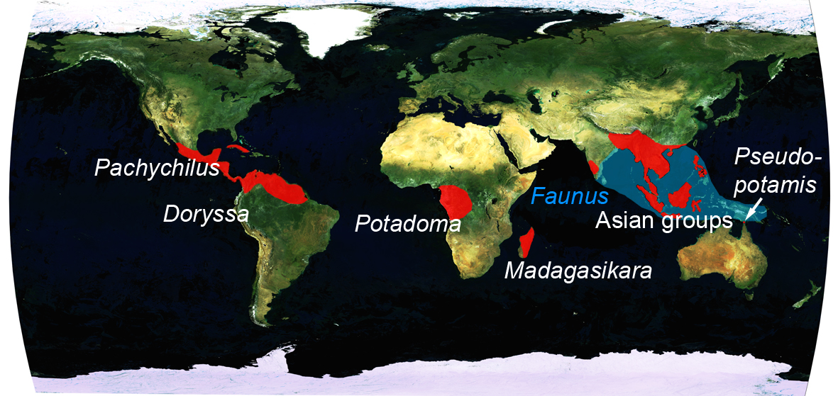 World-wide distribution of the Pachychilidae, Gastropoda